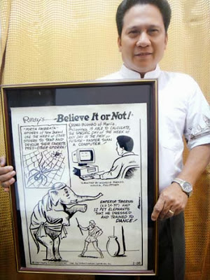 Mr. Ireneo Bughao carries his Ripley's Believe It or Not! cartoon, which features himself as a person who can "calculate any day of the week - past or future - faster than a computer!"